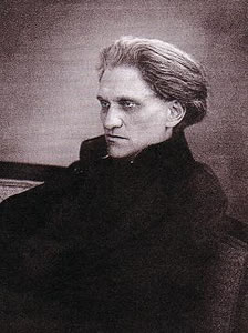 German poet Stefan George